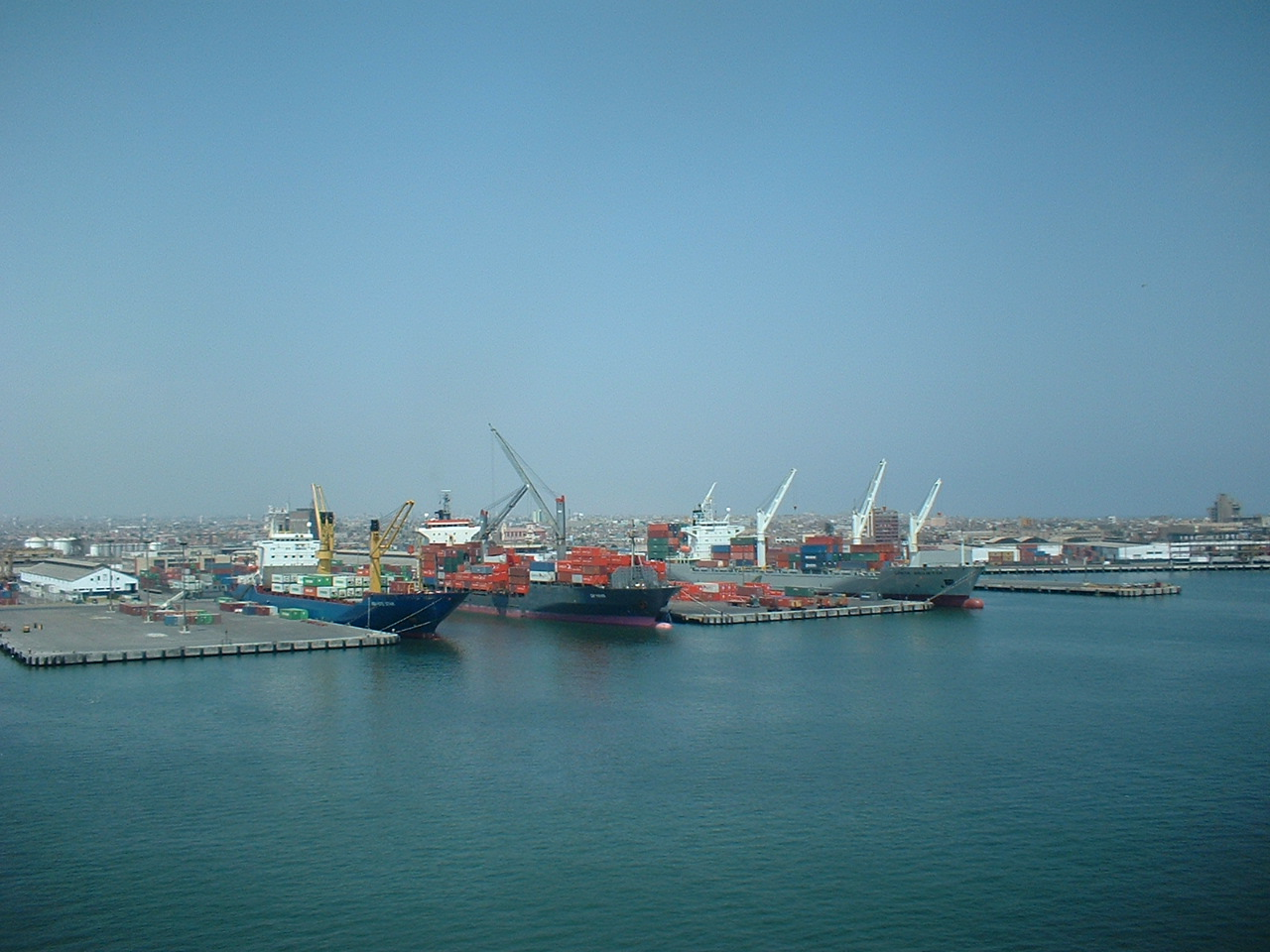 Piers in the Port of Callao, Peru.